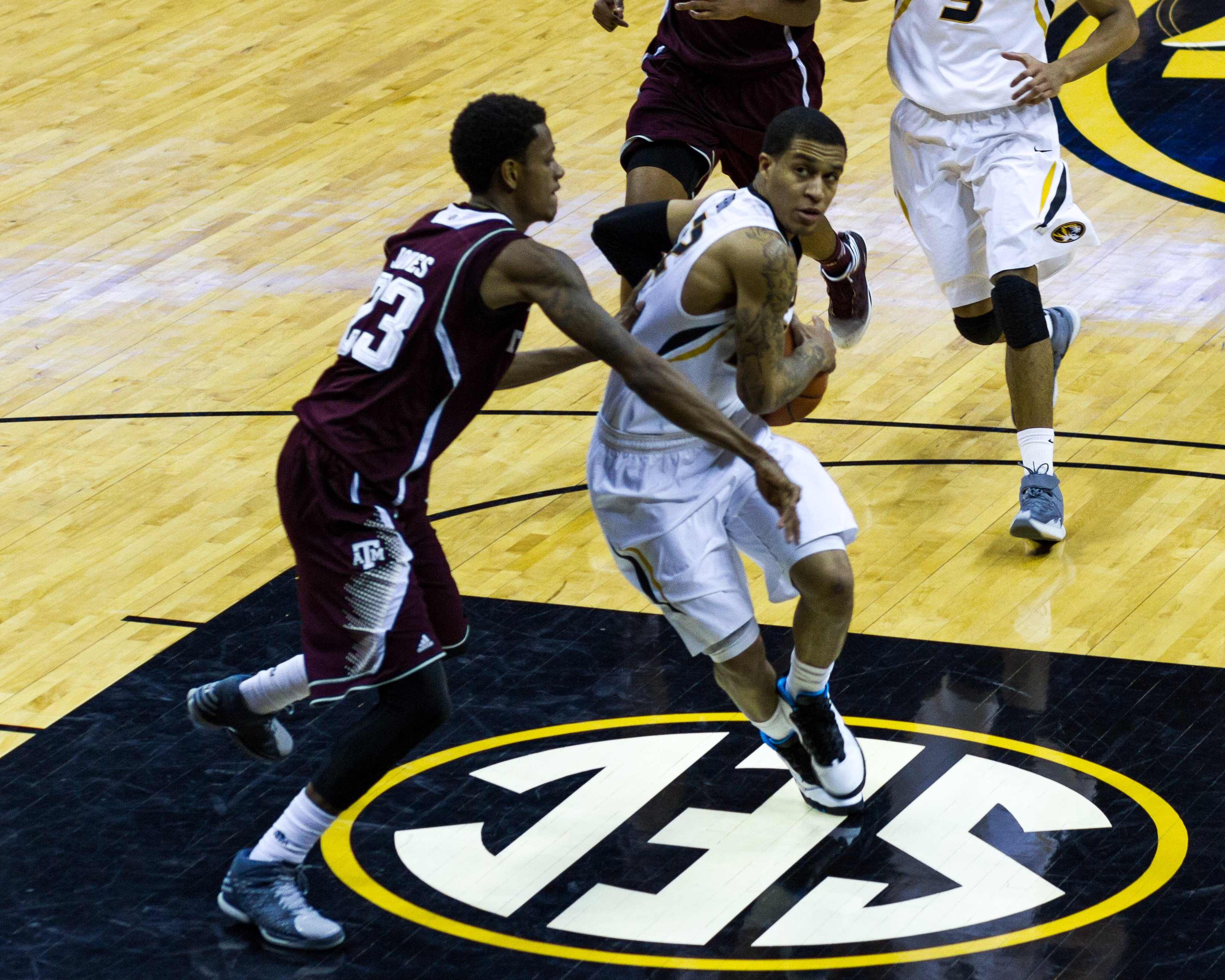 Missouri guard Jabari Brown pushes past Texas A&M's Jamal Jones.